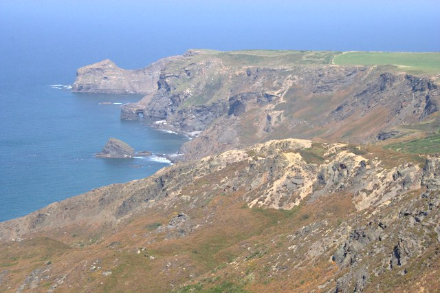 The View from High Cliff. At around 230 metres in height, the summit of High Cliff offers spectacular views. This view looks north towards the Cambeak promontory. The prosaically named High Cliff is the highest point on the Cornish coastline.